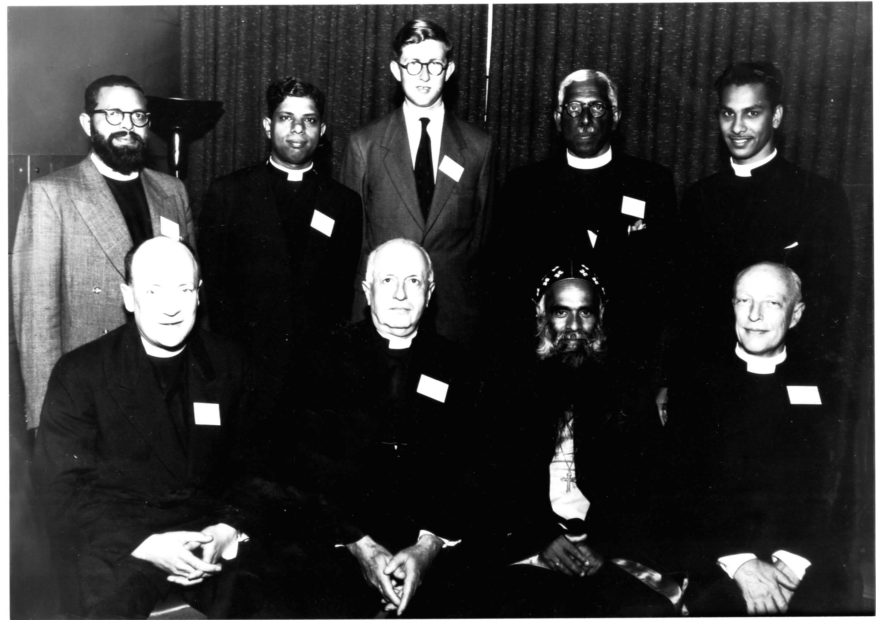 Indian Orthodox Church Delegates with World Leaders in WCC Evanston Assembly